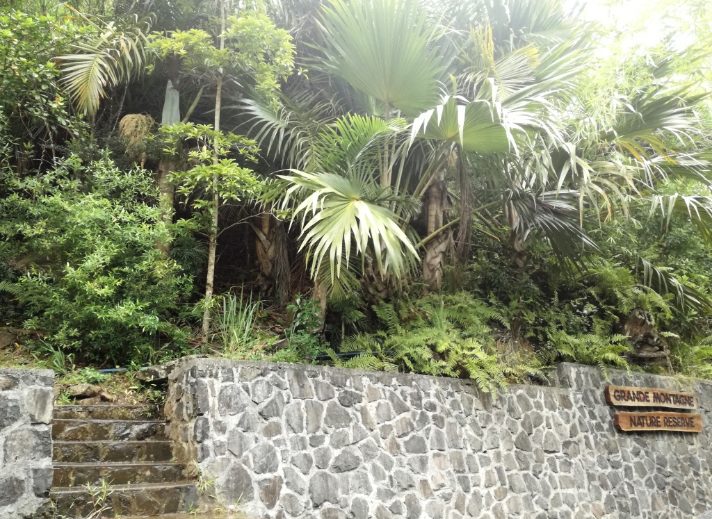 Grande Montagne Nature Reserve Rodrigues